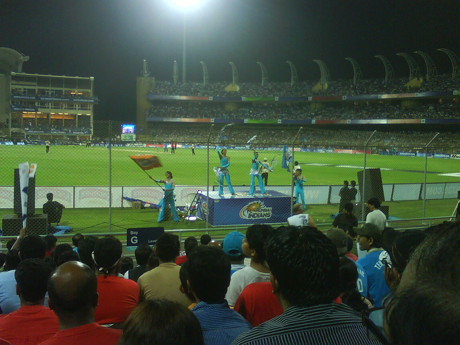 IPL match in progress between the Mumbai Indians and the Deccan Chargers on the new Dr. D Y Patil stadium in Navi Mumbai. This was the match where Adam Gilchrist scored a 42 ball century..